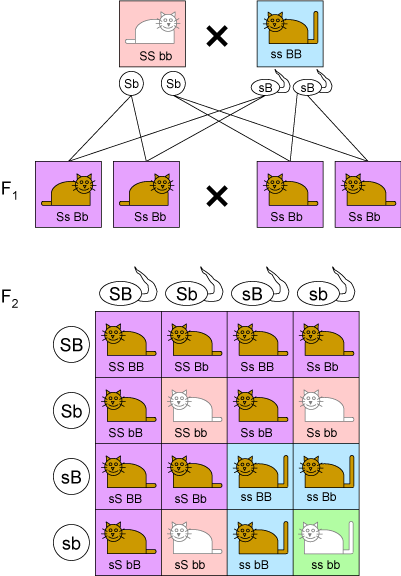 This illustrates a dihybrid cross using a Punnett square. The traits are long tail (s), short tail (S), brown hair (B) and white hair (b).